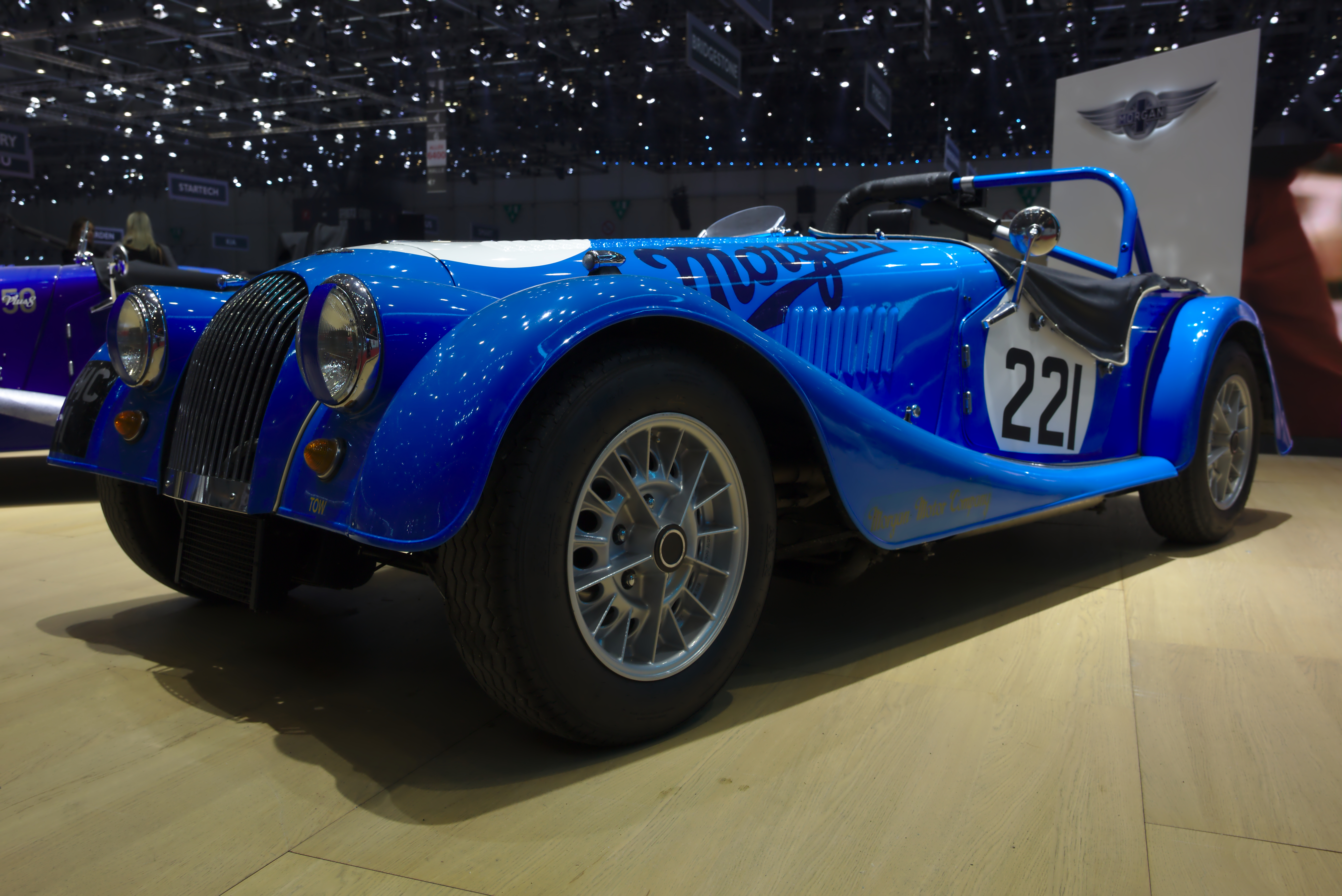 Morgan Plus 8 MMC11 at Geneva Motorshow 2018